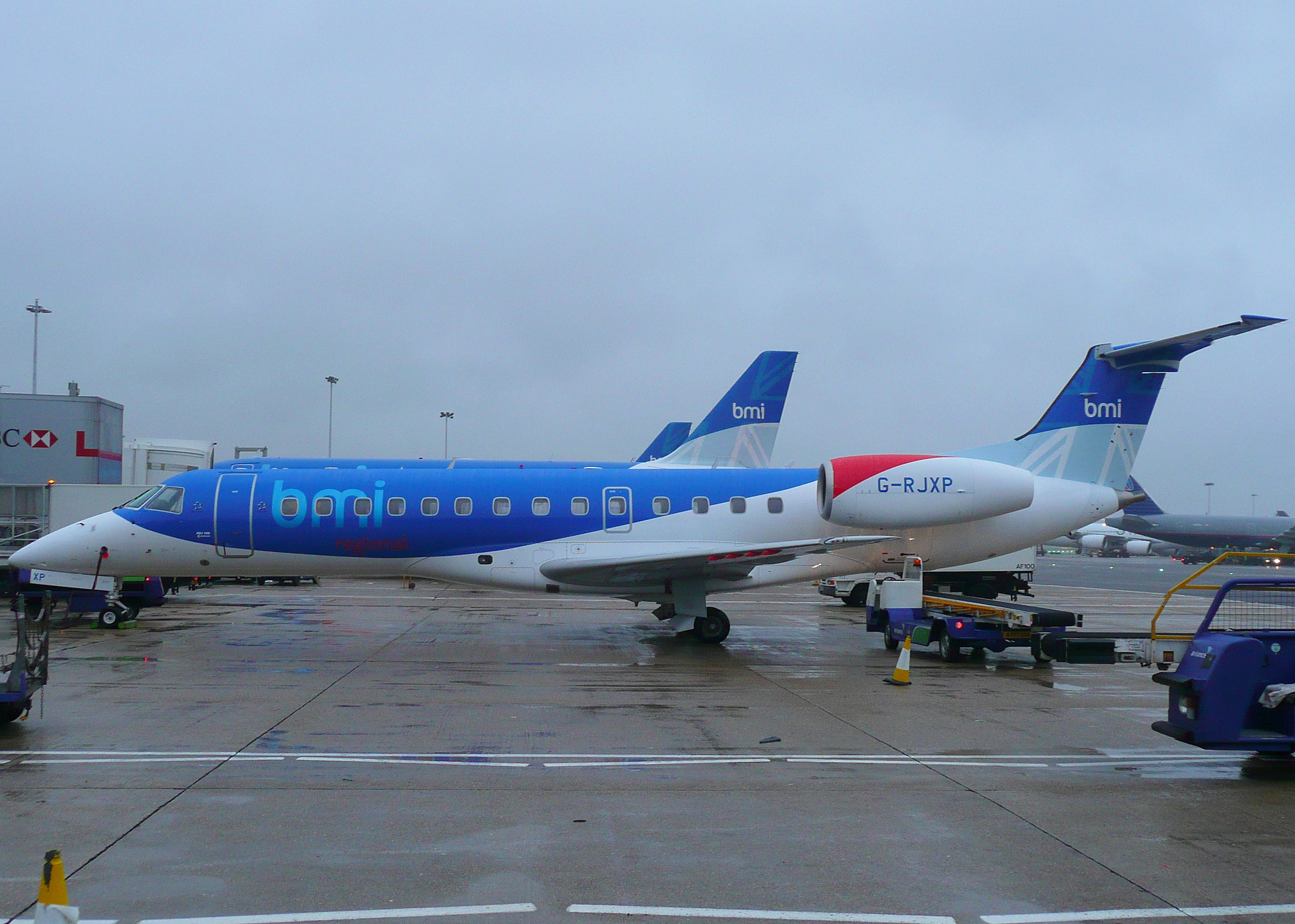 G-RJXP E135 BMI on it's first visit std 104 after night-stopping.